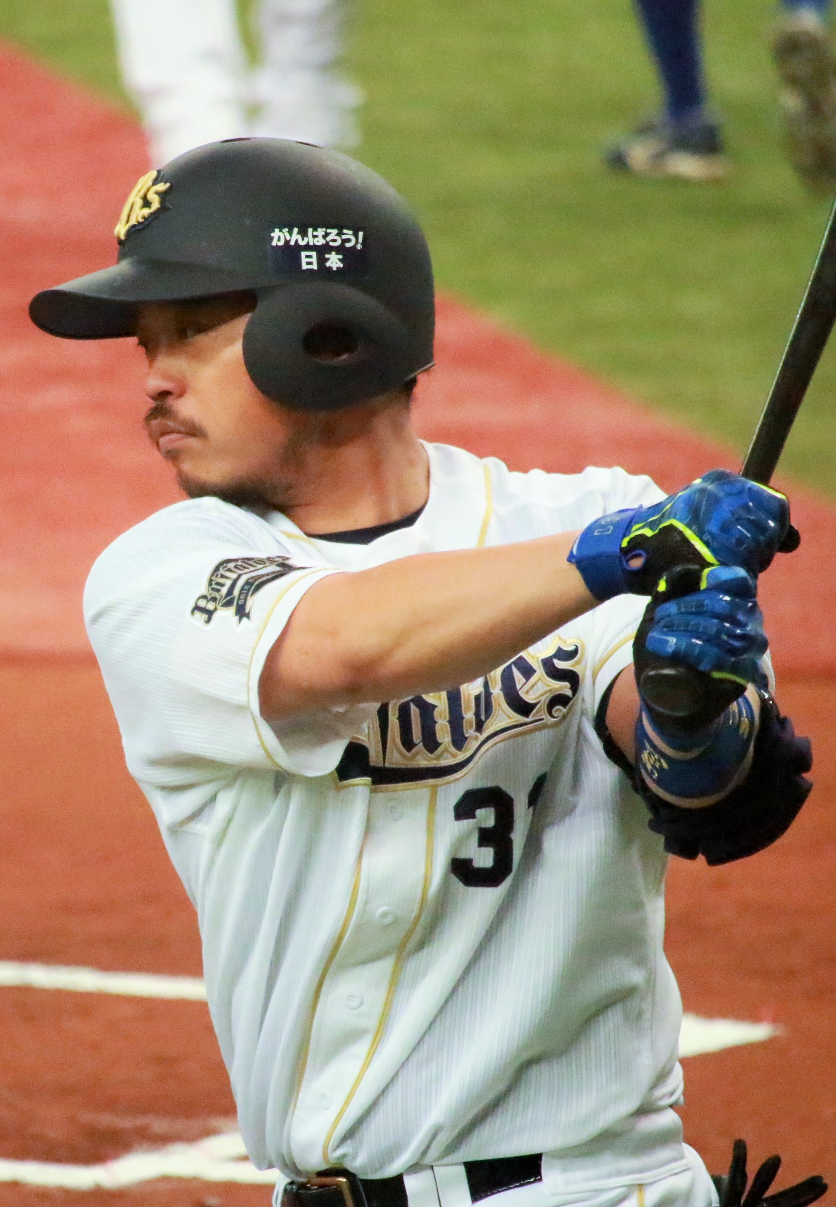 Eiichi Koyano, infielder of the Orix Buffaloes, at Osaka Dome.